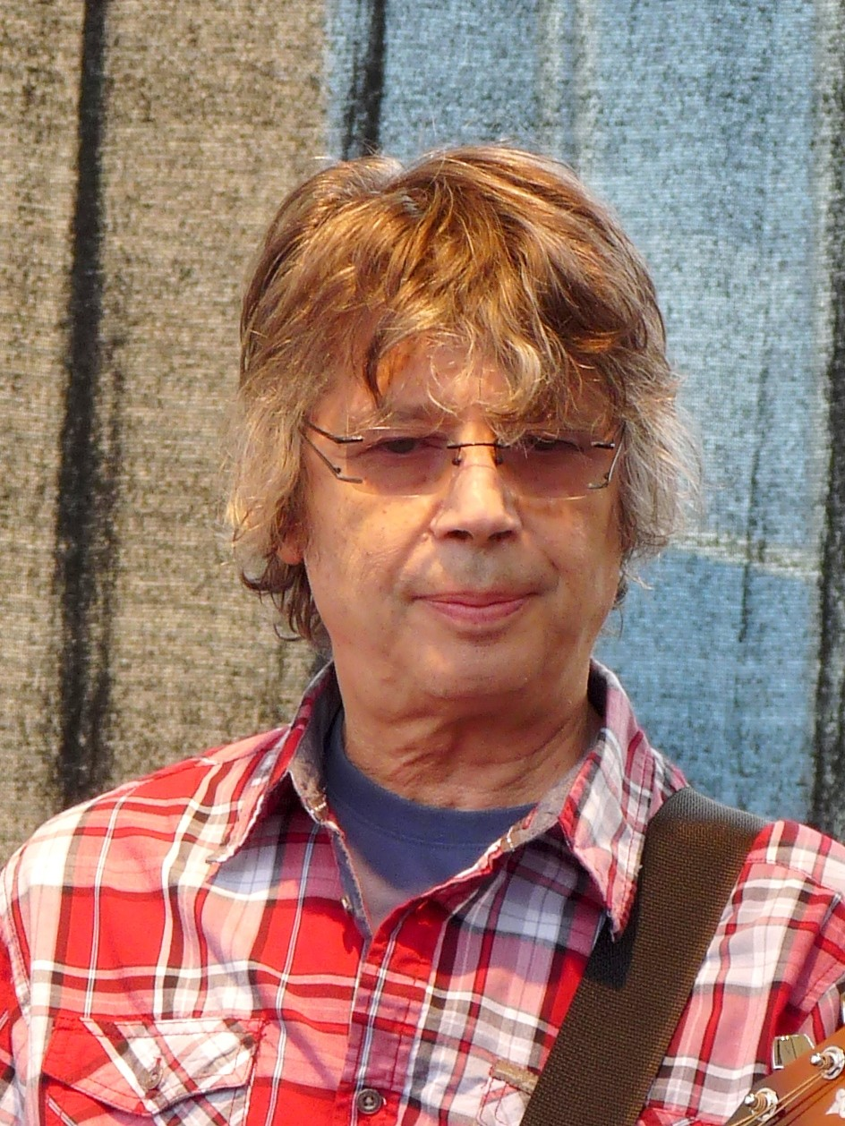 János Bródy (1946– ) Hungarian singer, musician, composer and songwriter, on the Day of Hungarian Song in 2010.